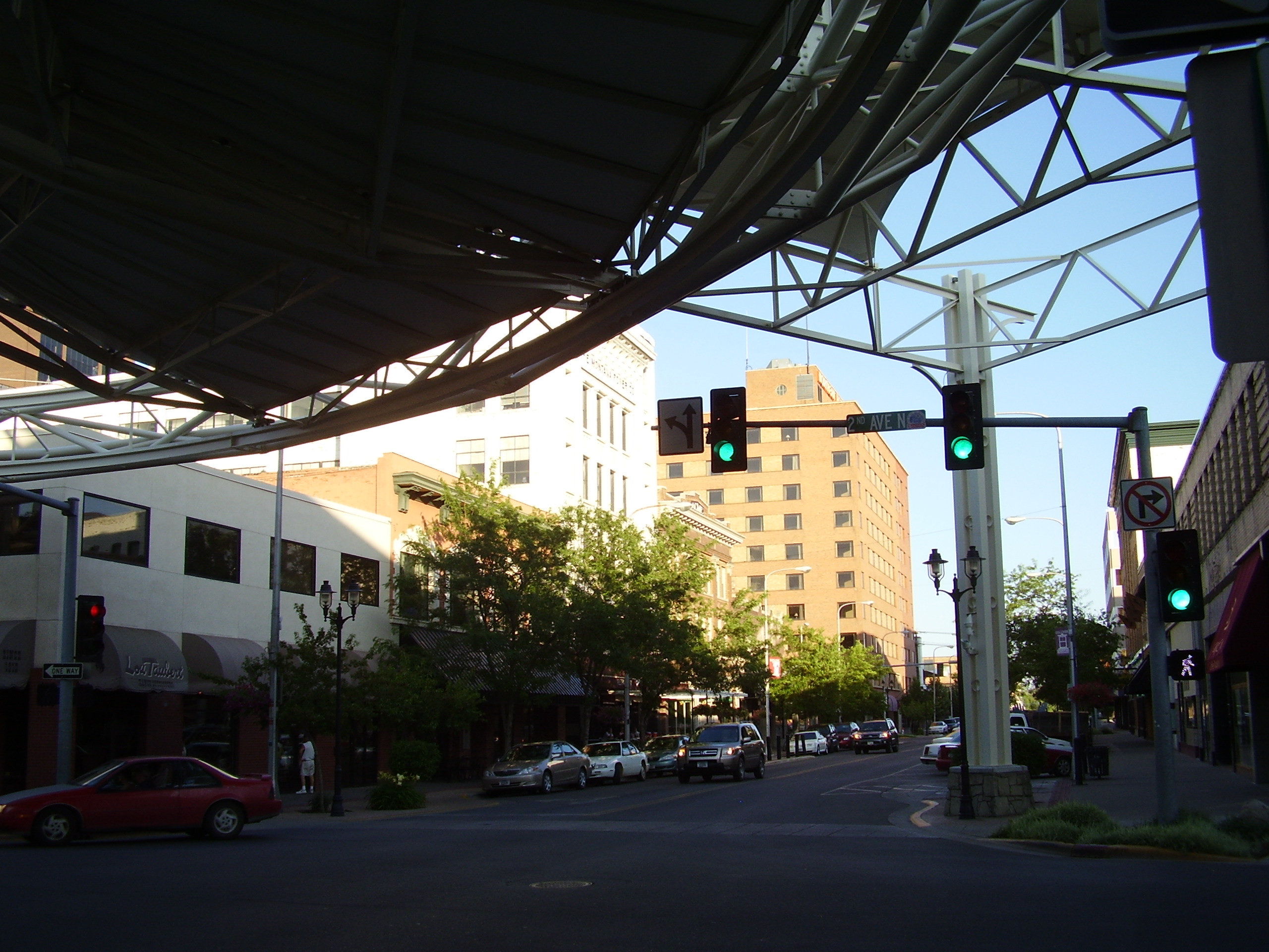 View of the street of Billings, most populous city in Montana.